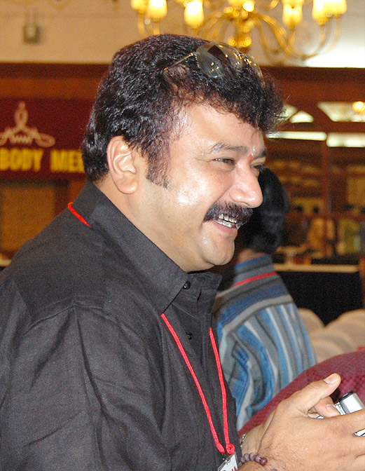 Jayaram - From AMMA General body meeting 2008